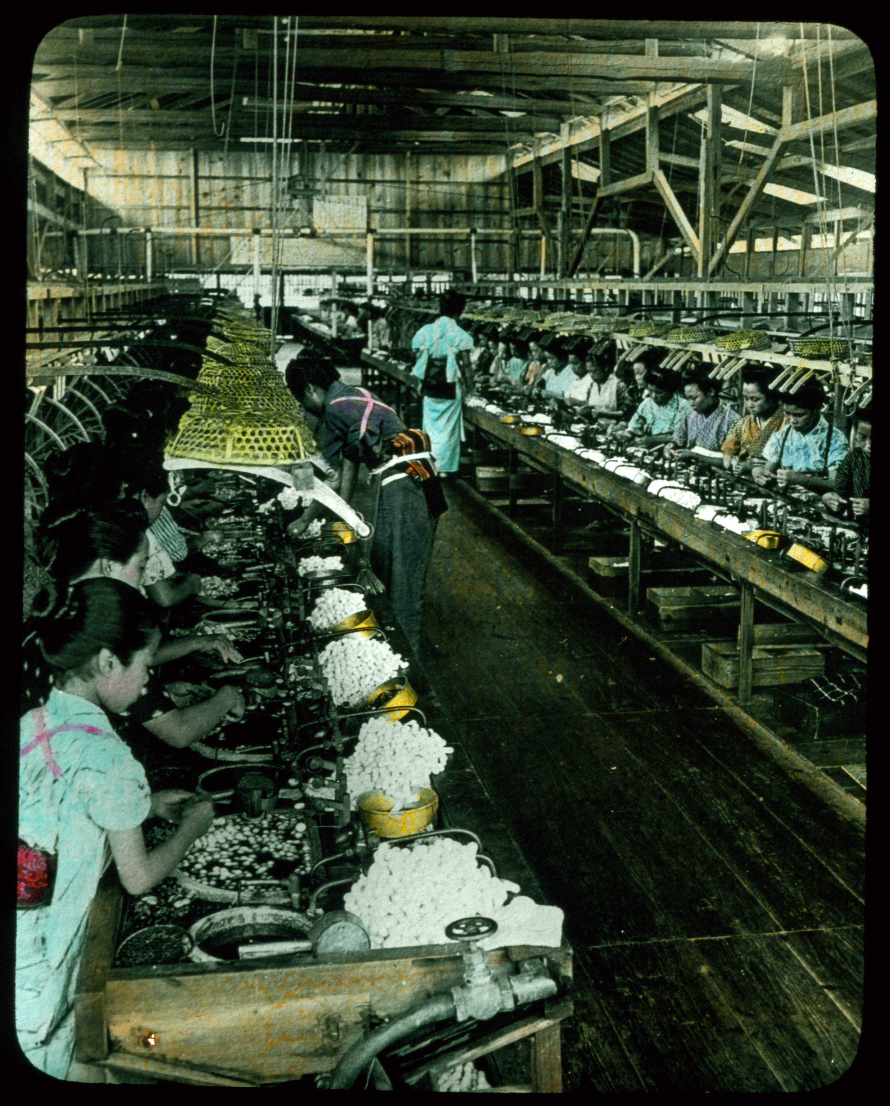 Item is a photographic glass-plate transparency; part of a set of colour-tinted transparencies depicting life in Japan ca. 1910, including scenery, street scenes, workers, farming, fishing, silk production, stone carvers, wood carvers, metal workers, potters, and artists.